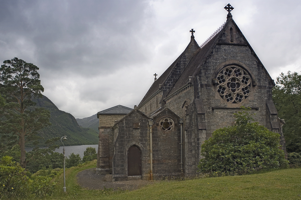 Catholic Church at Glenfinnan